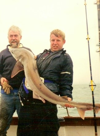 Peter van der Sluijs with a tope caught with a rod in Ireland